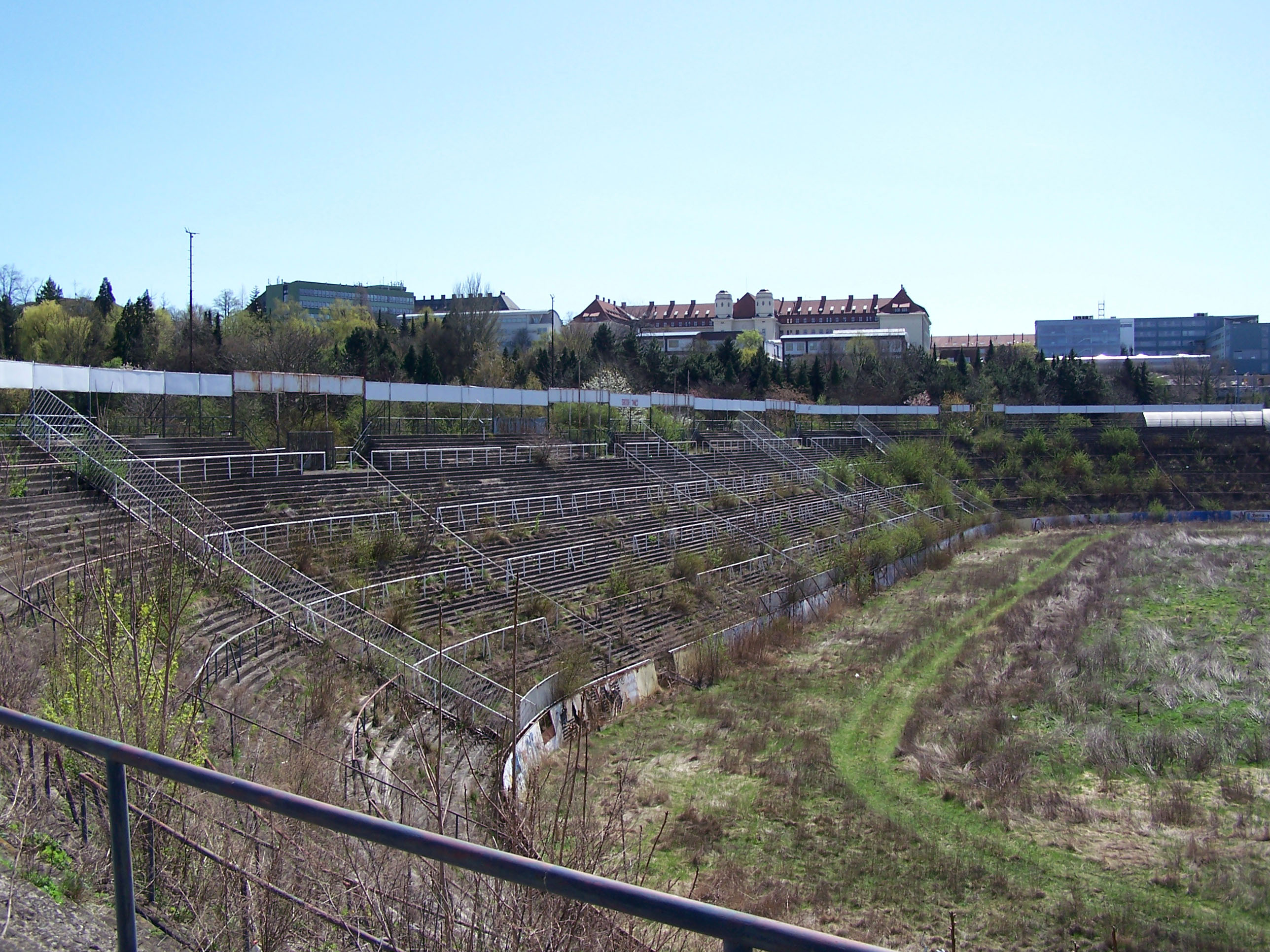 Eastern tribune of the Za Lužánkami Stadium in Brno, Czech Republic